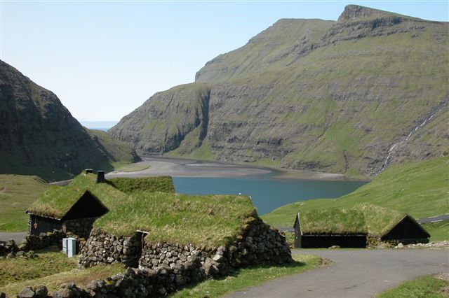 The old farm, Saksun